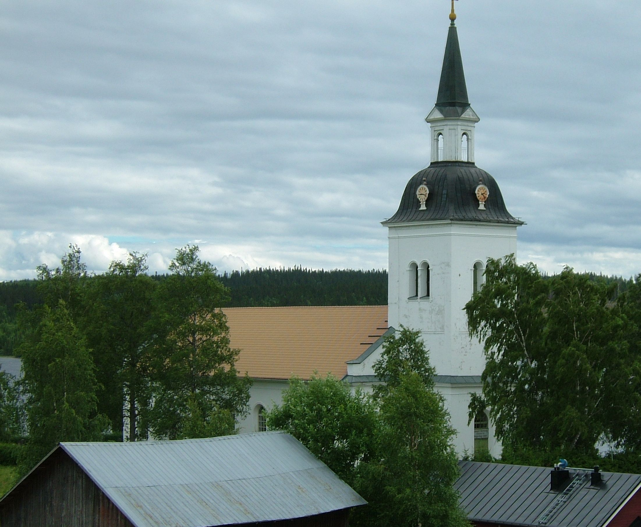 View of Laxsjö church